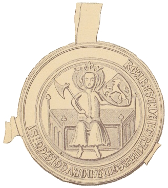 Seal of Margaret I of Denmark, Norway and Sweden, from document dated 6 March 1388, Akershus. Featuring the coat of arms of Norway to the right of enthroned Olaf the Saint. Text: "✠ [s' ma]RGARETA : DEI : GRACIA : REGINE NORVEGIE : ET : SV[ecie ....]". Size: 68 mm.